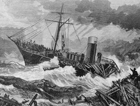 Wreck of SS Tarurua. Woodcut print, cropped here.